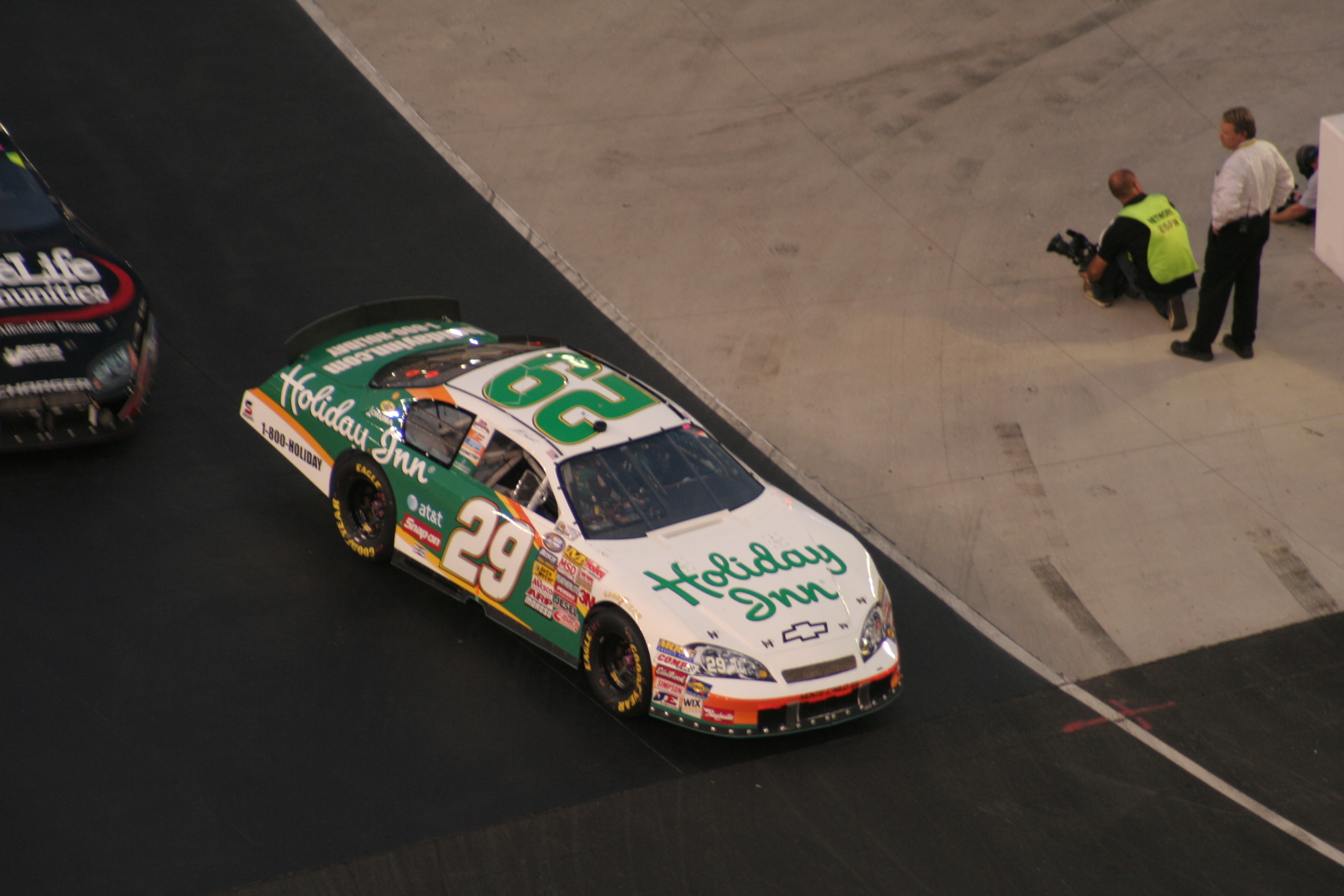 Jeff Burton at Bristol Motor Speeway in the Richard Childress Racing No. 29.